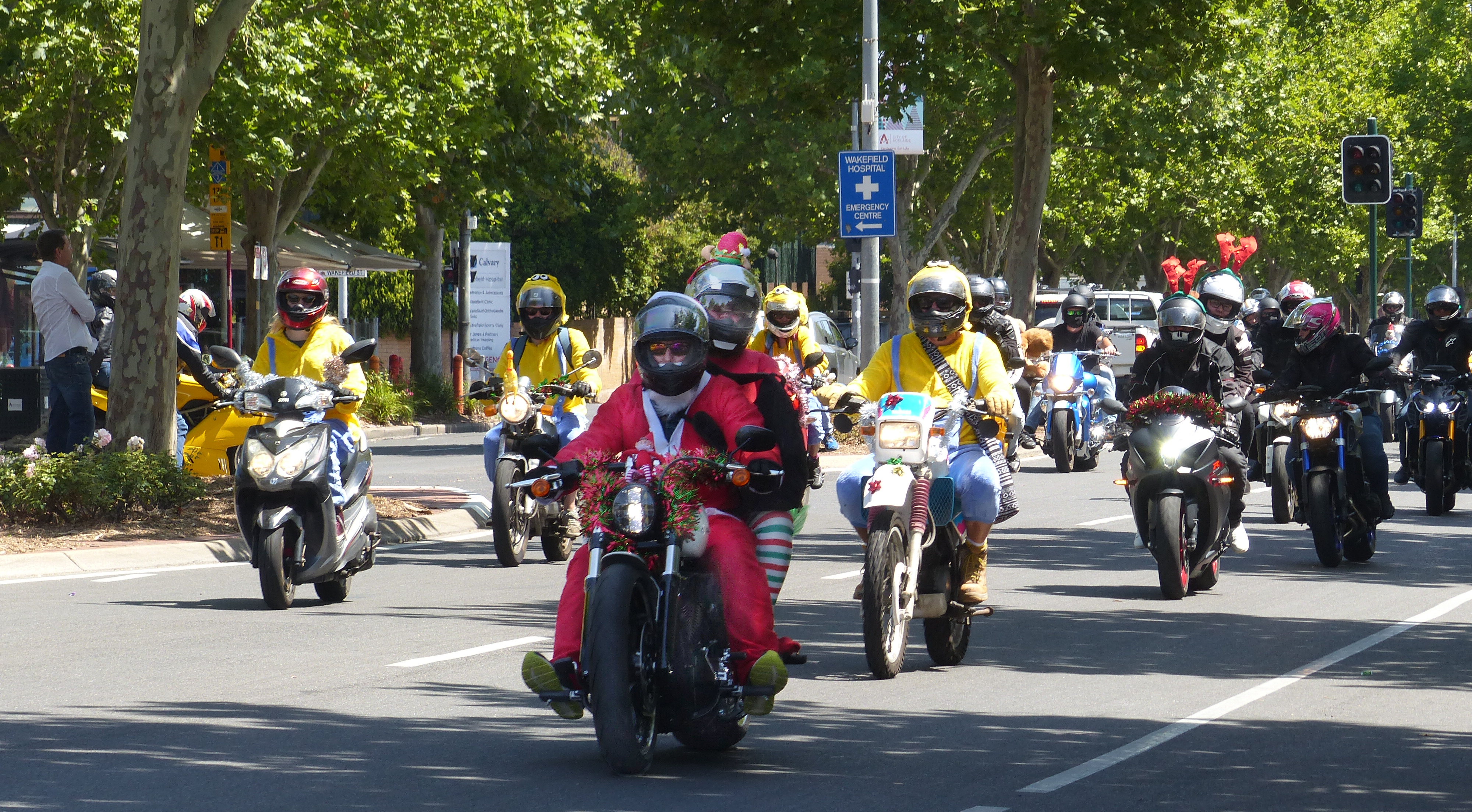 Motorbikes proceeding down Hutt Street, Adelaide, on 8 December 2019, near the start of the 60 km annual Toy Run by the Motorcycle Riders' Association of South Australia. More than 6,000 people participated. Proceeds were in aid of children's welfare via the St Vincent de Paul Society.